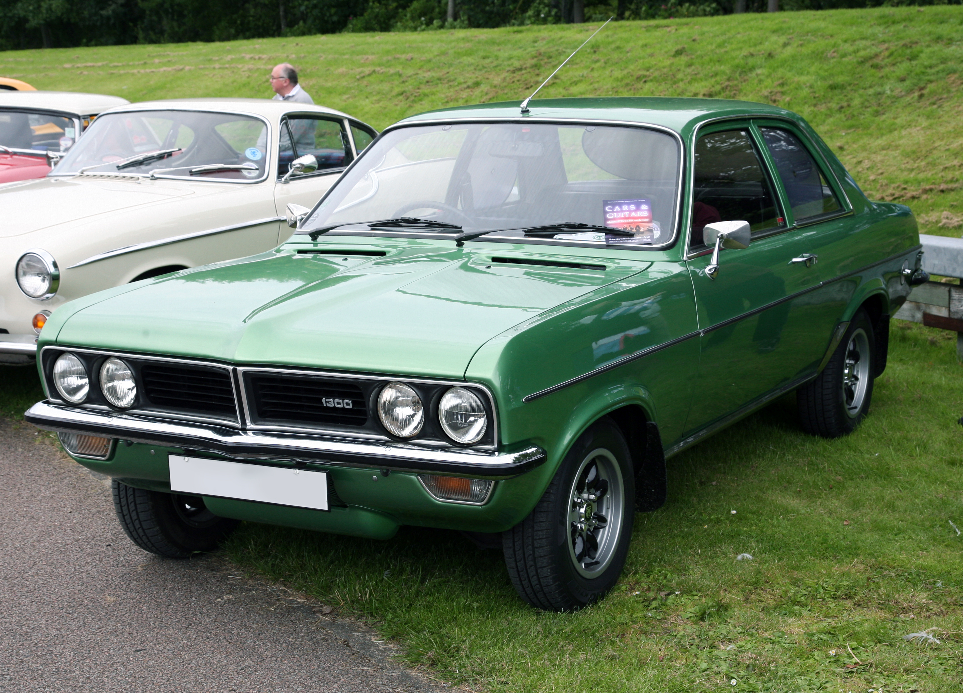 1980 Vauxhall Viva 1300 (HC). First registration in March 1980.